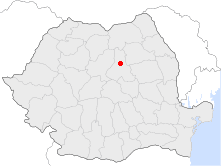 Location of Gheorgheni in Romania.